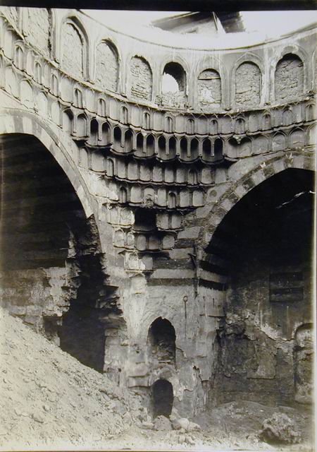 Hammam al-Sultan al-Mu'ayyad